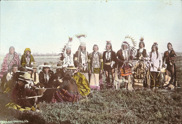 Nez Perce and Umatilla men & women gather for powwow, ca. 1900 Hand-tinted photo of men and women; small group sit in circle around a drum, a row of men stands behind the circle, watching. Several men are in wide-brimmed hats, standing men wear feather or roach headresses. The two women have blankets around their shoulders, and scarves on their heads. Caption on image: Nez Perce's and Umatilla's for War Dance, ca. 1900